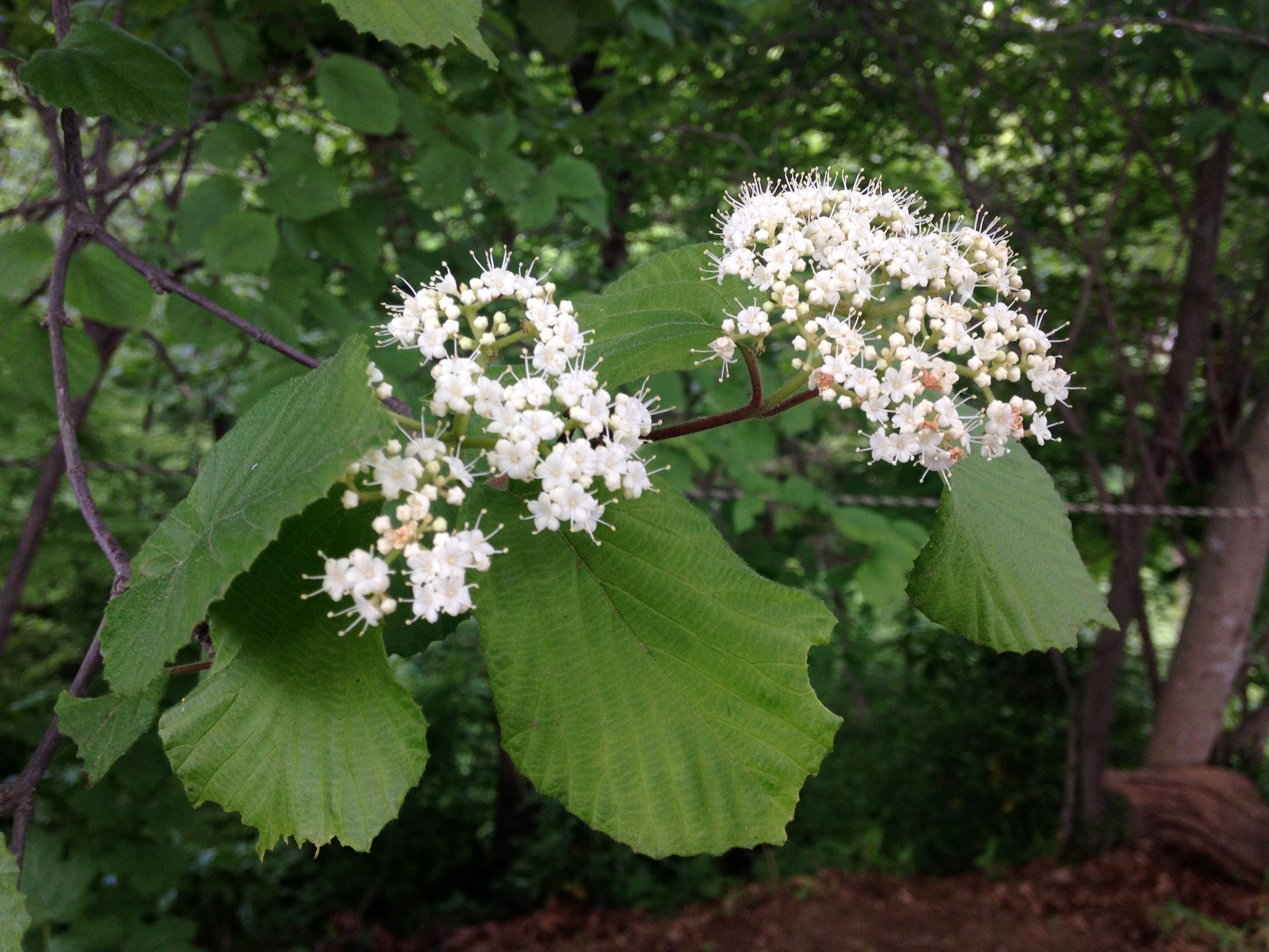 Viburnum dilatatum, deciduous forest at summit of Mount Takao, Hachiōji, Tokyo, Japan.